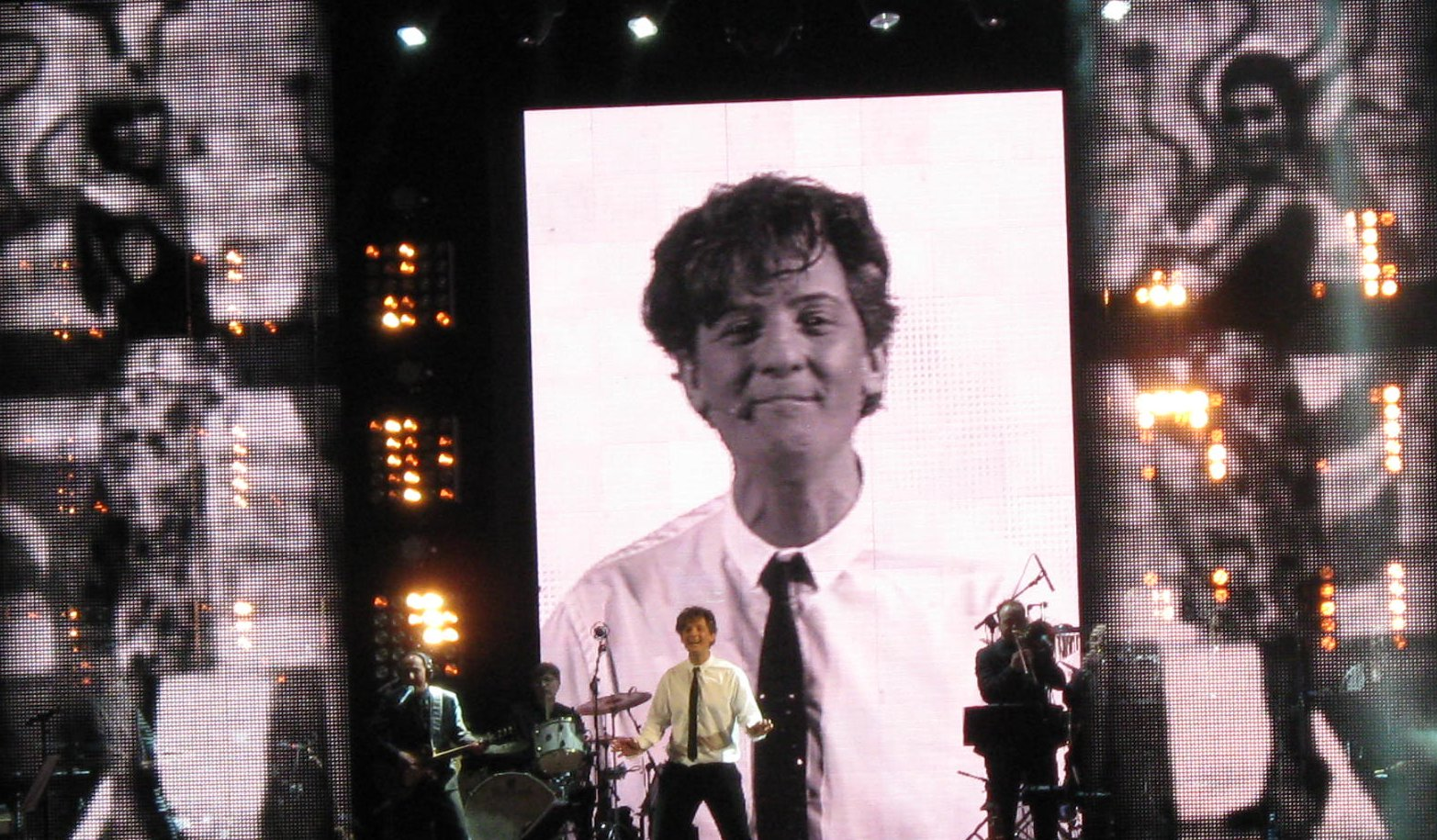 Fiorello - Show Tour 2010 - Bari